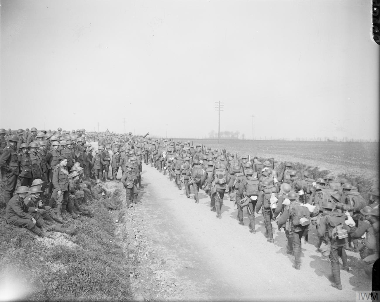 The German Spring Offensive, March-july 1918 Defence of Hinges. The 1st Battalion, Royal Scots Fusiliers watching the 7th Battalion, King's Shropshire Light Infantry marching up to the outpost line, 3rd Division, 11 April 1918.